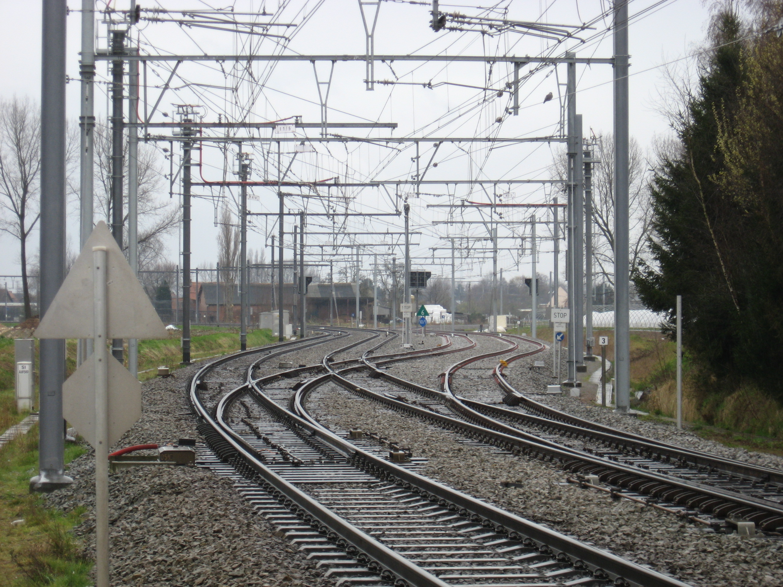 Goodslijn 10, Port of Antwerp, Westside. Start of the new curve to line 59 in the direction of Gent. (right) To the left the existing connection on line 59 to Antwerp and the tunnel. In Zwijndrecht at the end of tramline 3.